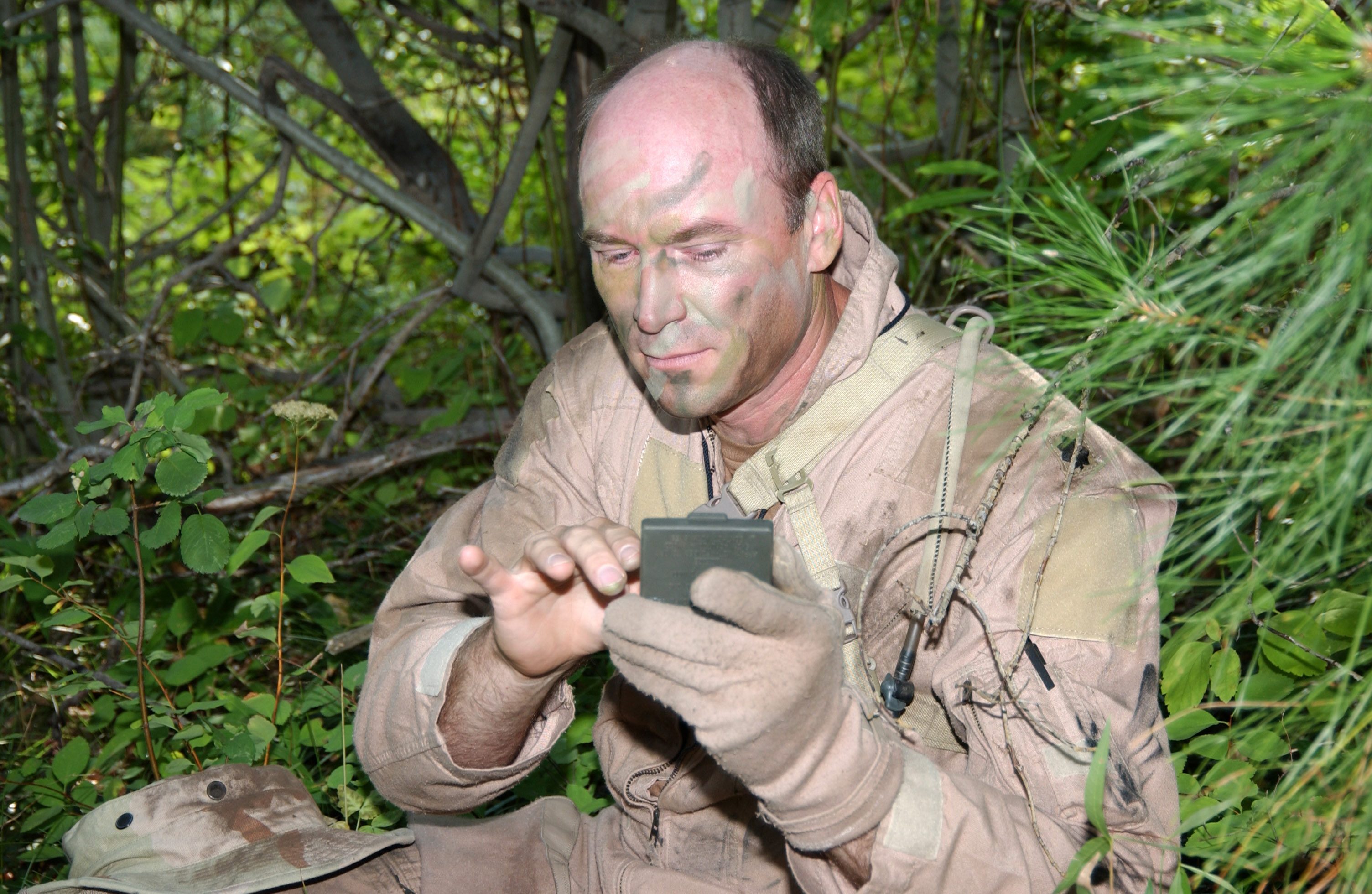 Lt. Col. Gus Kohntopp of the 190th Fighter Squadron applies camouflage face paint to avoid being spotted by the "enemy" during the Idaho Air National Guard's combat survival training exercise near Idaho City, Idaho, on Aug. 6, 2006.